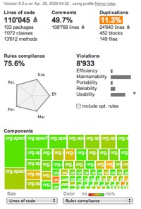 Copie d'écran du logiciel d'analyse du code source Sonar